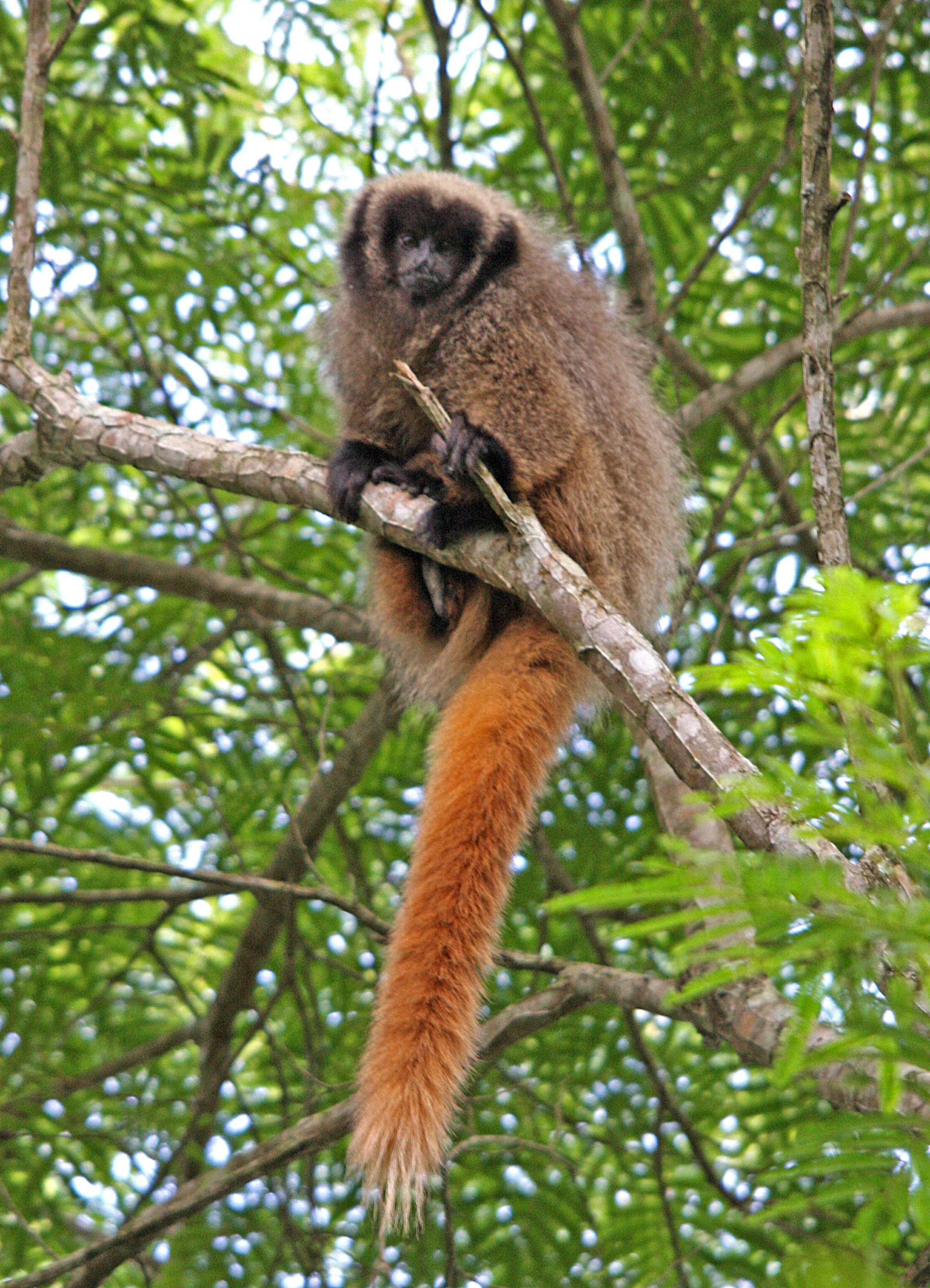 Black-fronted titi (Callicebus nigrifrons) in Prados, Minas Gerais, Brazil.